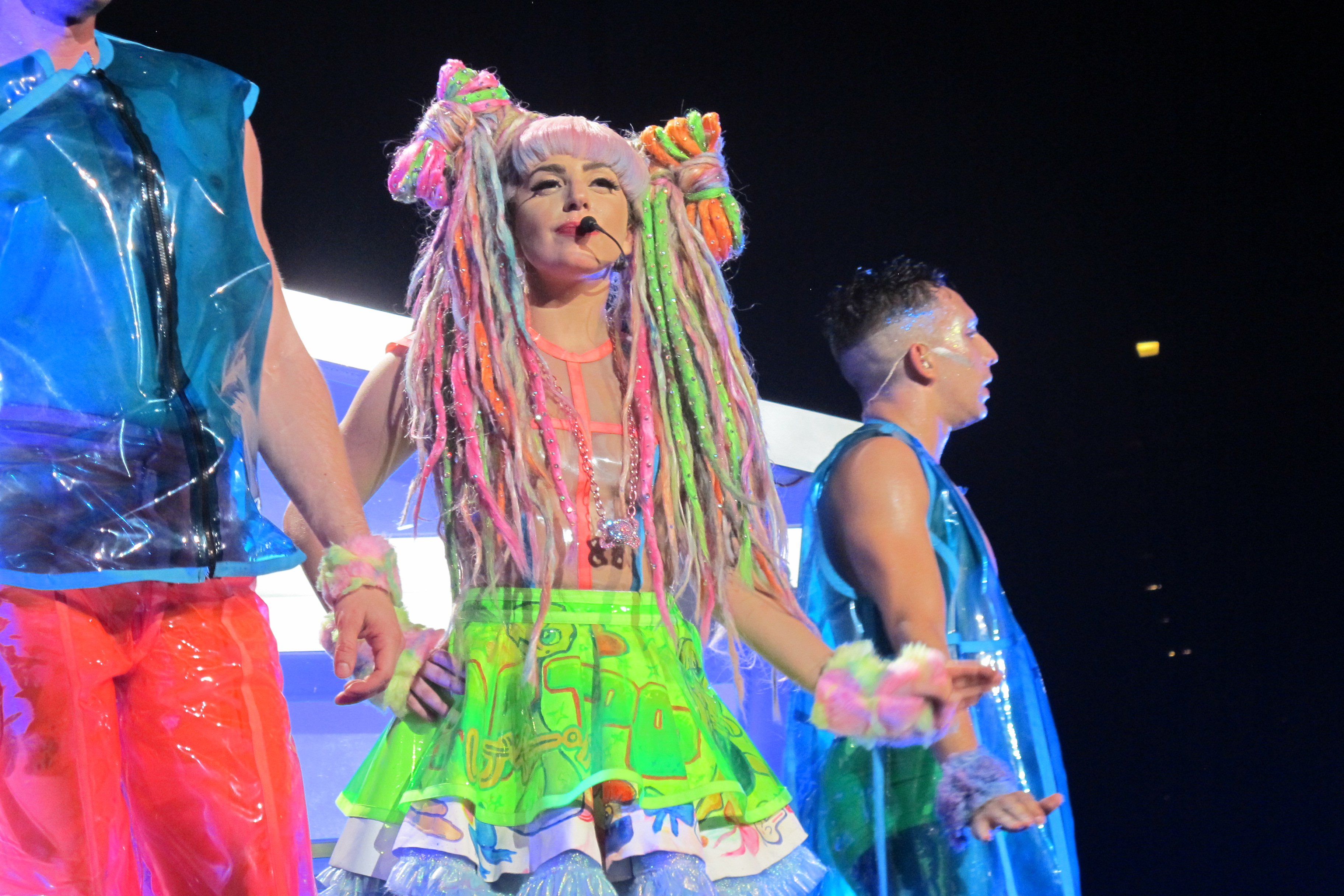 IMG_8313 Lady Gaga performing at ArtRave: The Artpop Ball of San Diego